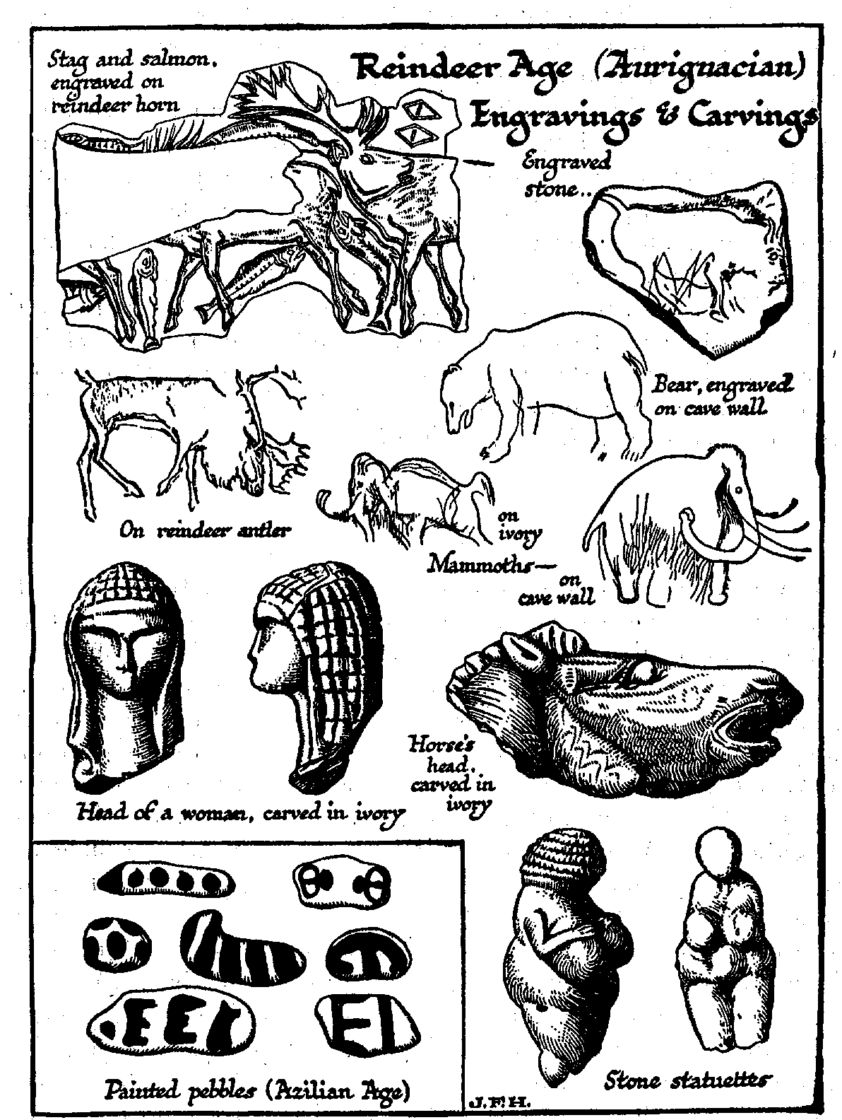 The caption says "Reindeer Age (Aurignacian) Engravings & Carvings" but please note that there is nothing Aurignacian in this picture ! Most of the engravings are Magdalenian, the Venus sculptures are Gravettian and the small ochered pebbles are Azilian ! This image should not be used to illustrate Aurignacian...